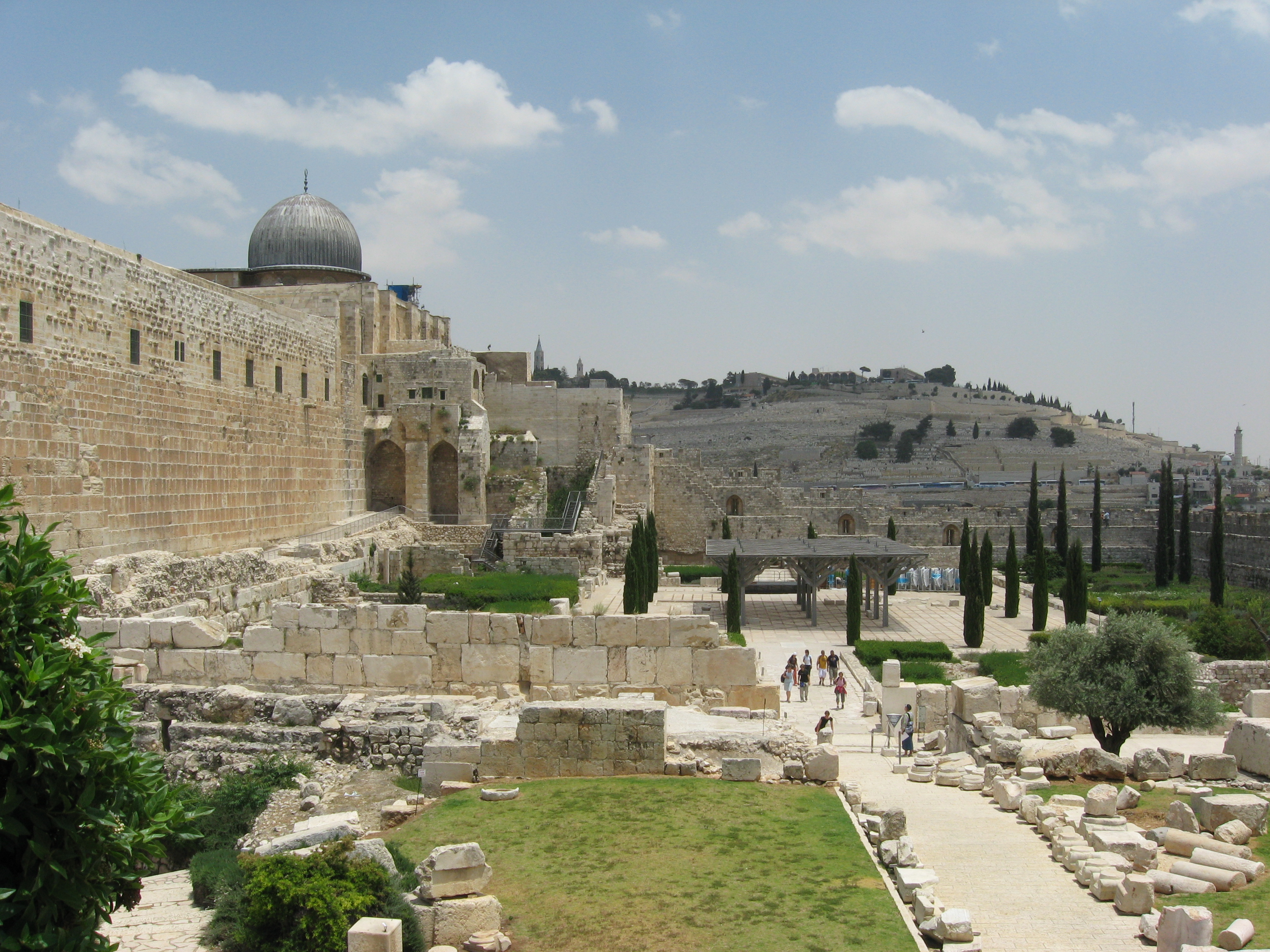 Davidson Archaeological garden at the foot of the Al Aqsa Mosque